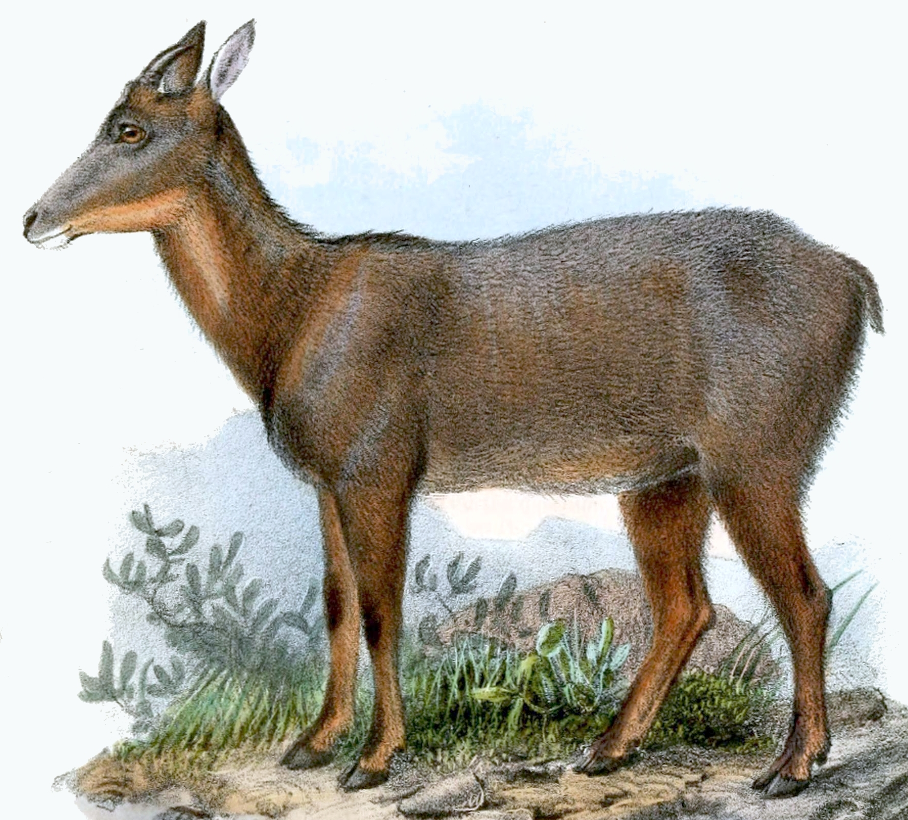 Taiwan Serow